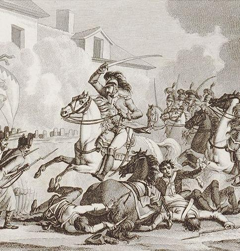 Pierre Maupetit (1771-1811) charging, leading his cavalry regiment.